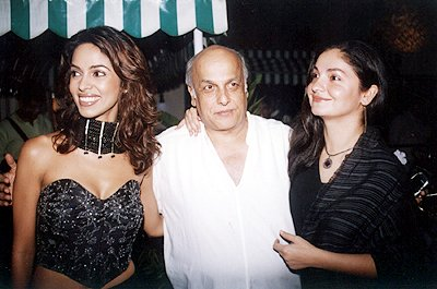 Murder Success Celebration Party